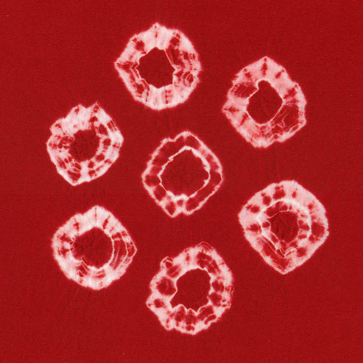 Shibori ornament, silk dress by Anna Anisimova, St. Petersburg University of technology and design/ "flower-power" collection.